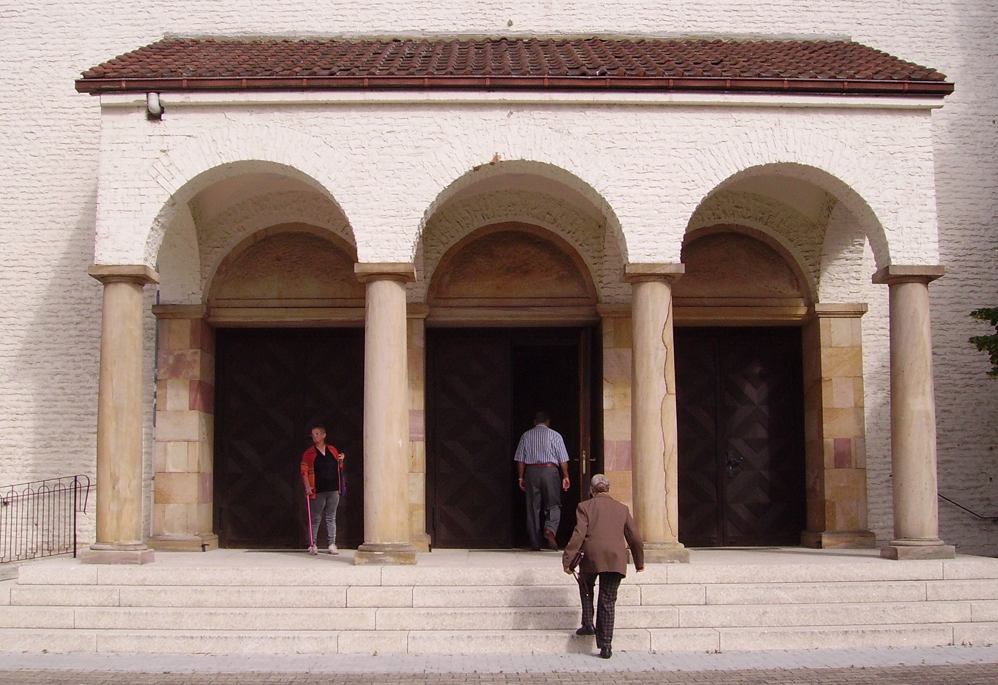 view of Limburgerhof, Germany